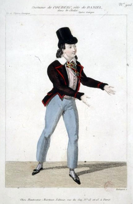 Costume of Joseph Antoine Charles Couderc as Daniel in Adolphe Adam's 1-act opéra-comique Le chalet